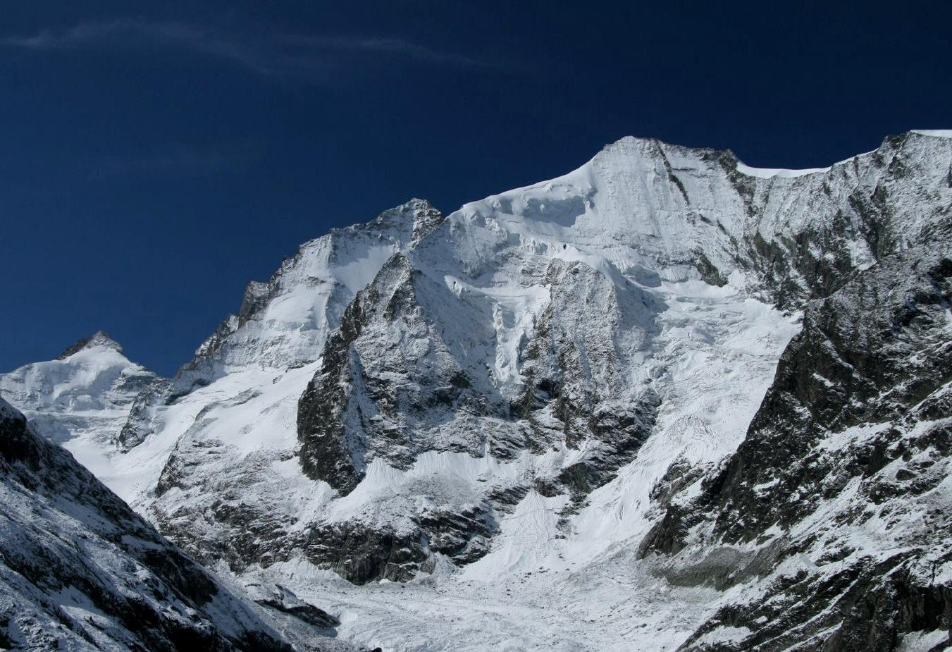 Grand Cornier, view on the north face